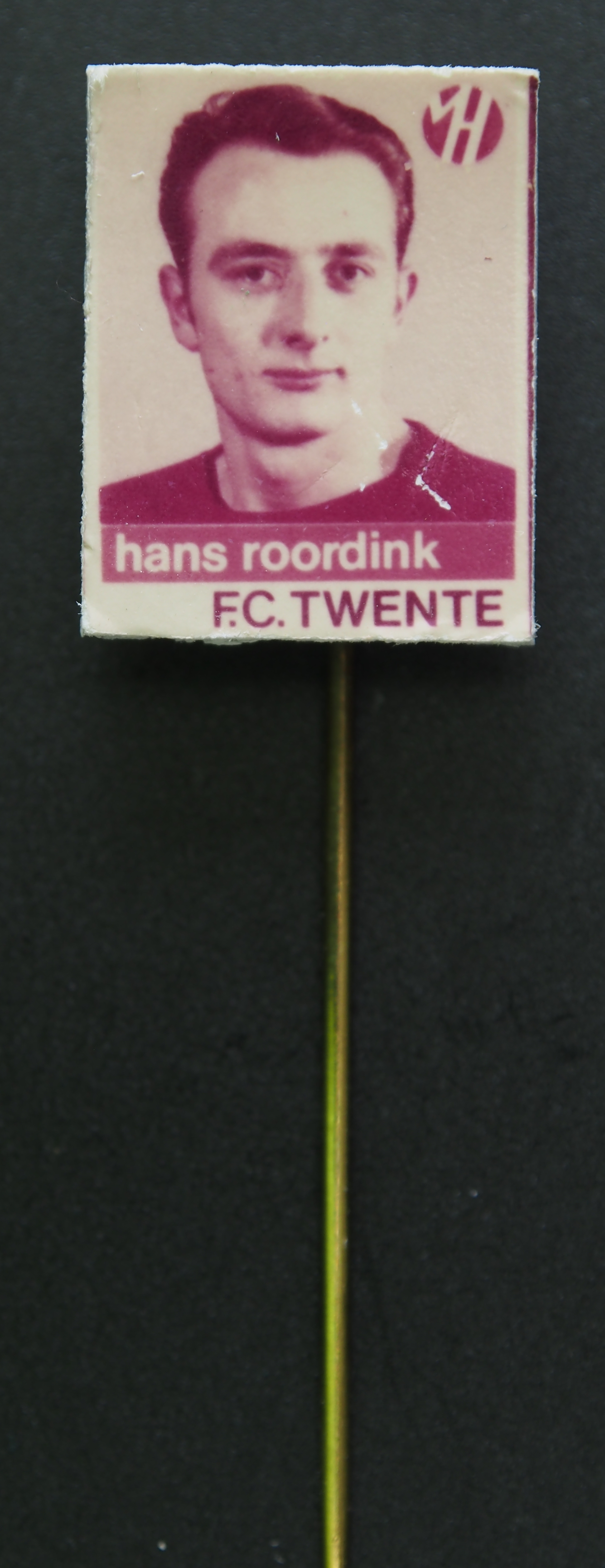 Advertising pin of an old (Dutch) product or brand.